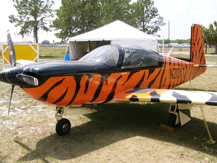 I took this photo of Mooney M20T Predator N20XT at Sun 'n Fun 2006.